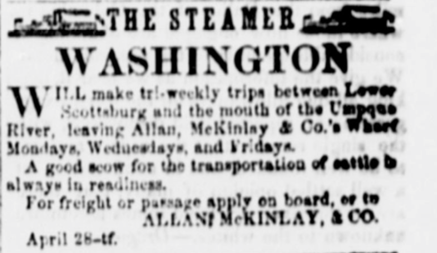 Advertisement for steamer Washington, running on the Umpqua river, published 1854